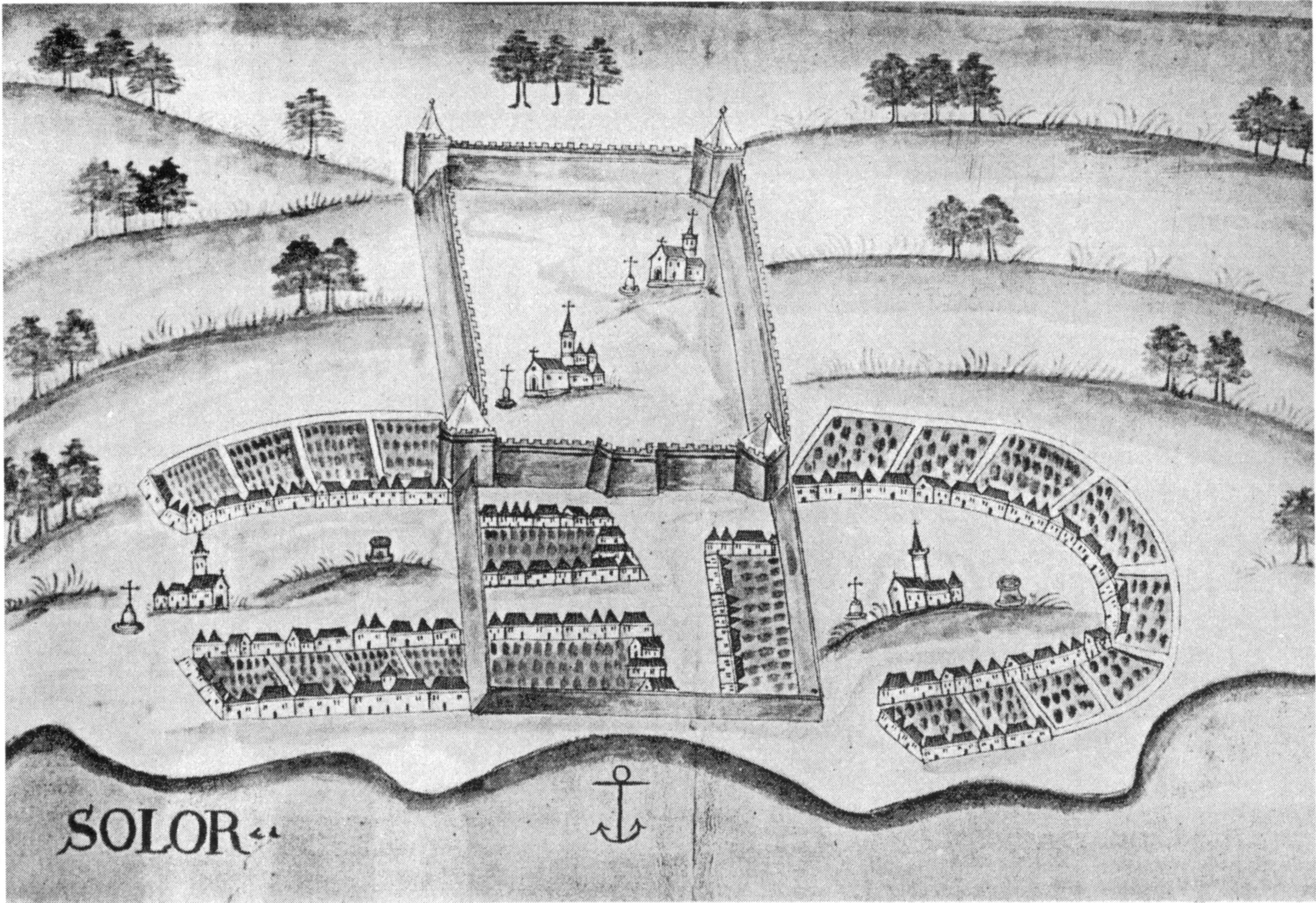 Colonial Portuguese Fortress of Solor